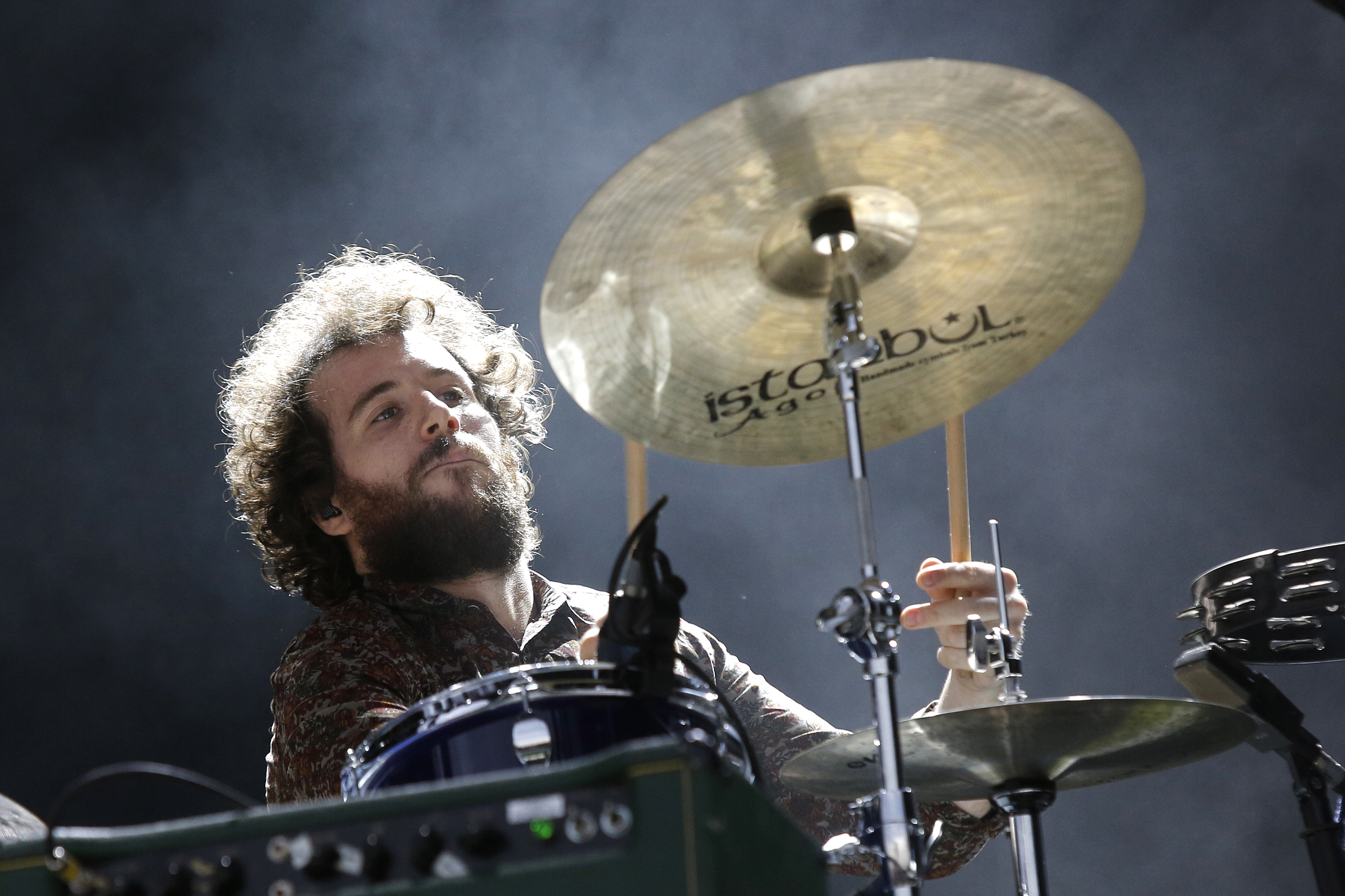 Drummer Jimmie Morrison with Welsh band Stereophonics at Nova Rock-Festival 2013.